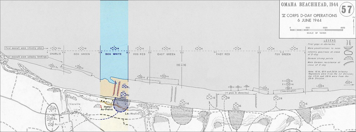 This is a treatment of the image Omaha_beachhead_6_June_1944.jpg already placed in Wikimedia Commons and used in the article Omaha Beach. I believe the source image is already GFDL licensed, and I generated this copy myself.